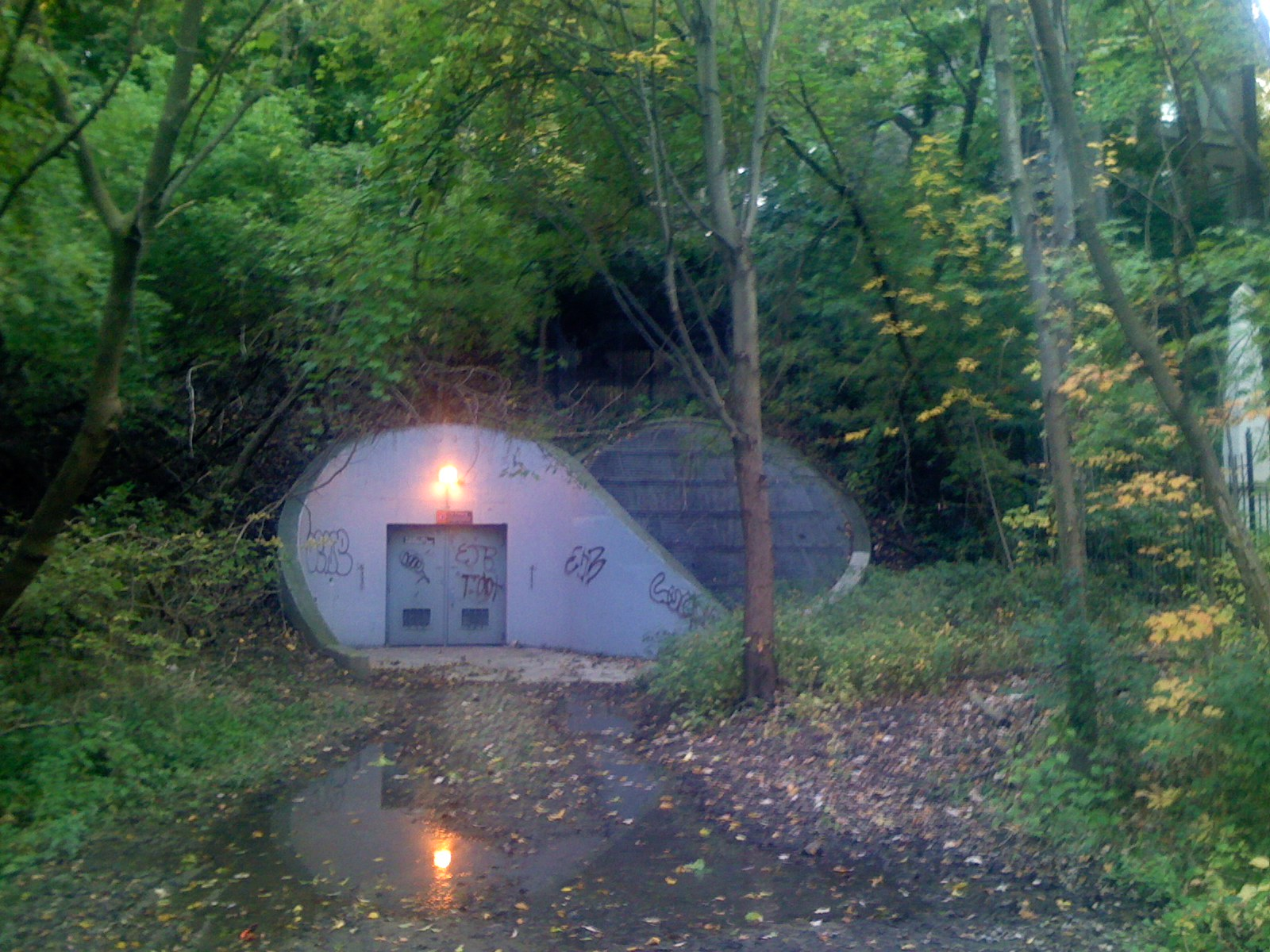 Picture of the TTC Russell Hill Emergency Exit